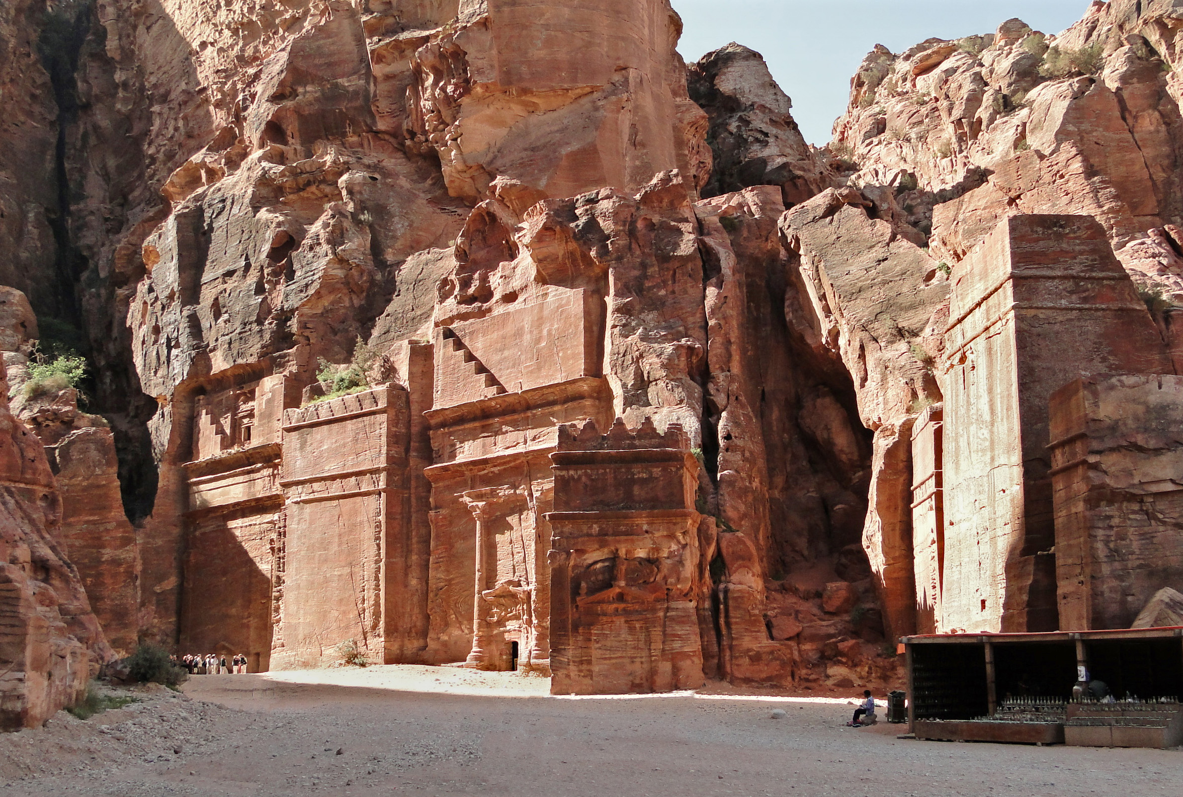 Tombs on the Street of Facades, Petra, Jordan